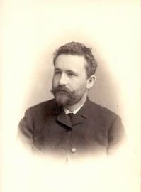 Emil Kraeelin